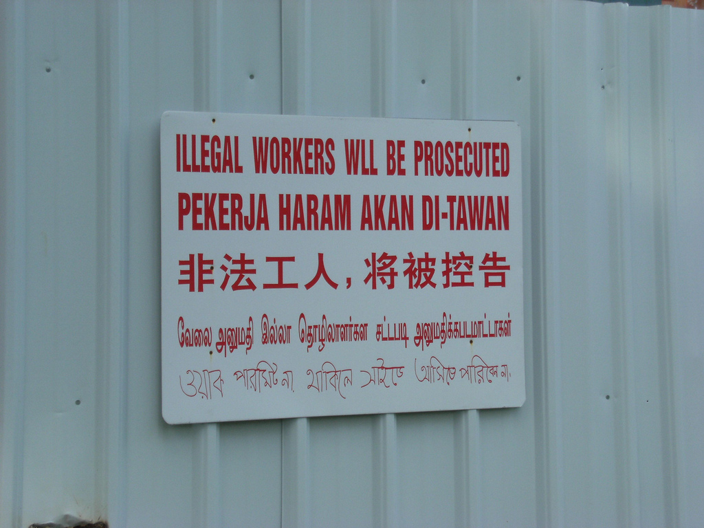 A sign with the phrase "Illegal workers will be prosecuted" in English and the equivalent in Malay, Mandarin and Tamil, the other official languages in Singapore. A sentence in a fifth language has been added by hand.